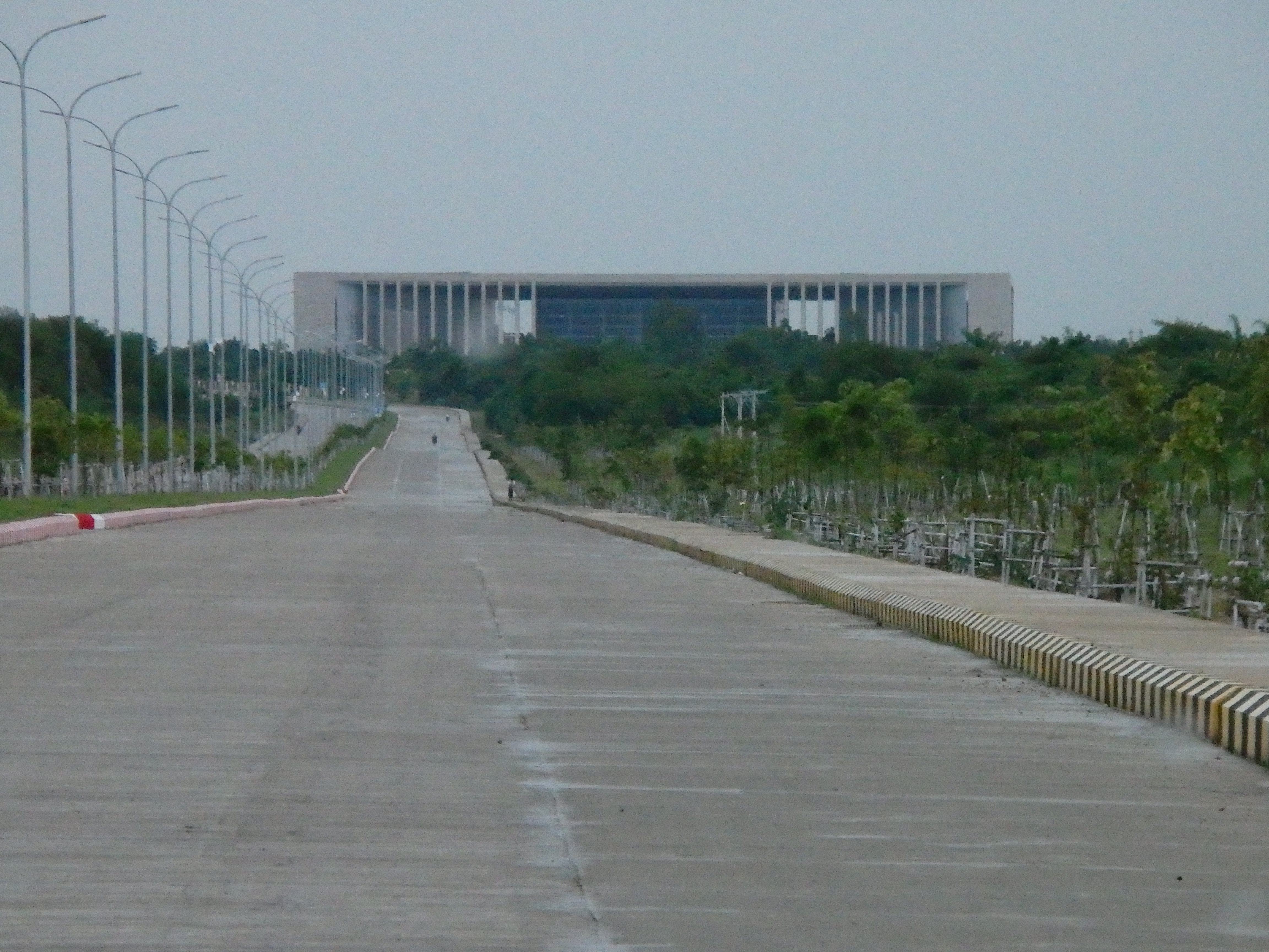 Diplomatic Housing Estate, Myanmar (Burma)